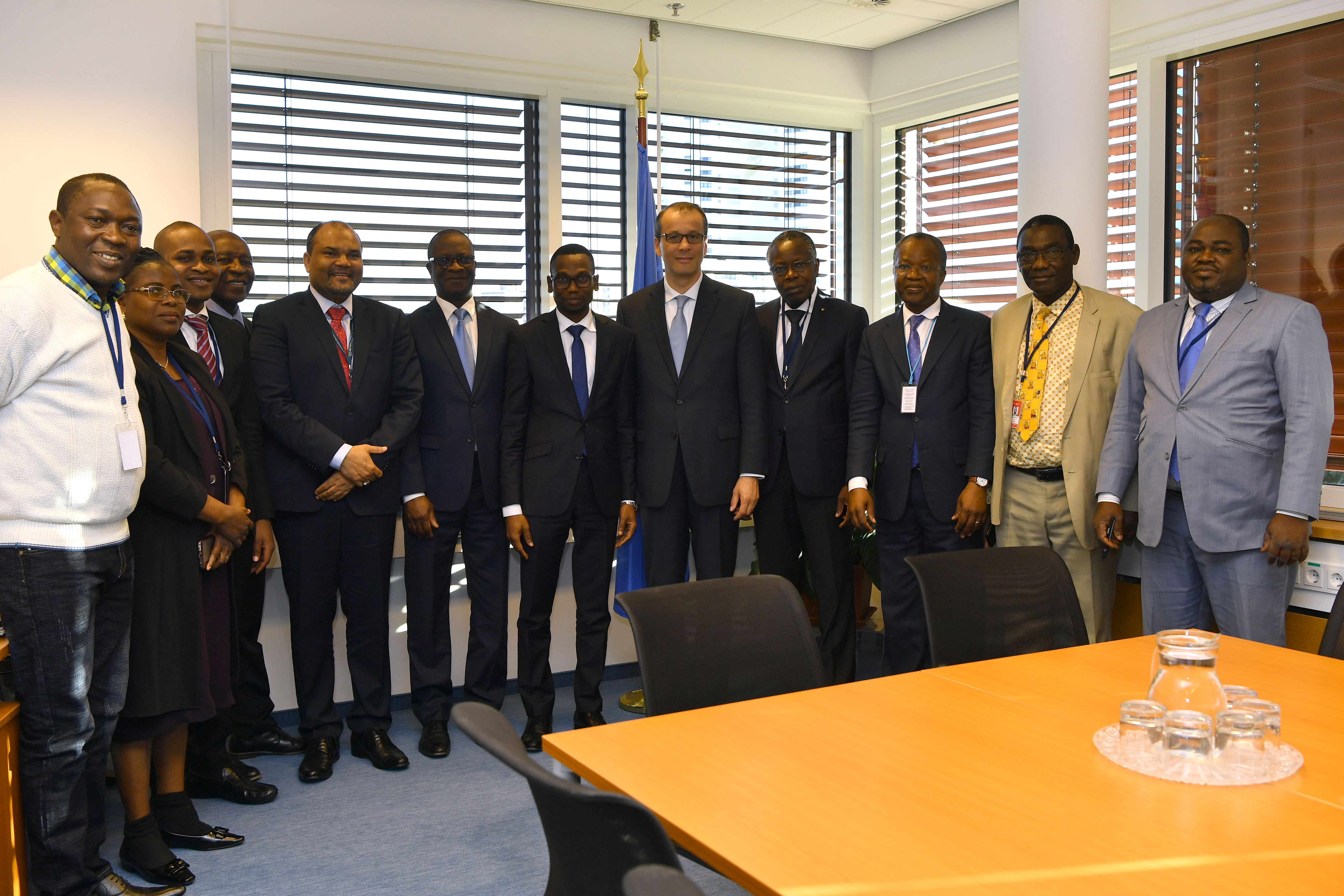 Bilateral meeting between HE Mr Benjamin A. Hounkpatin, Minister of Health of the Republic of Benin and Cornel Feruta, IAEA Acting Director General at the IAEA 63rd General Conference. IAEA, Vienna, Austria. 18 September 2019. Photo Credit: Dean Calma / IAEA